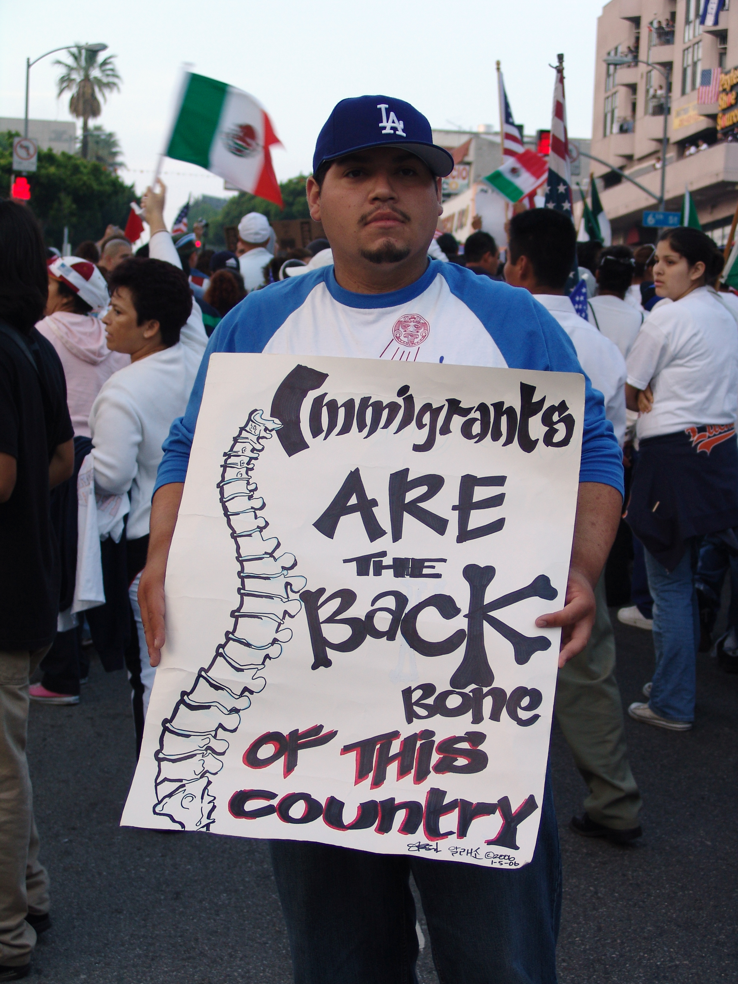 Immigrant rights march for amnesty in downtown Los Angeles, California on May Day, 2006.